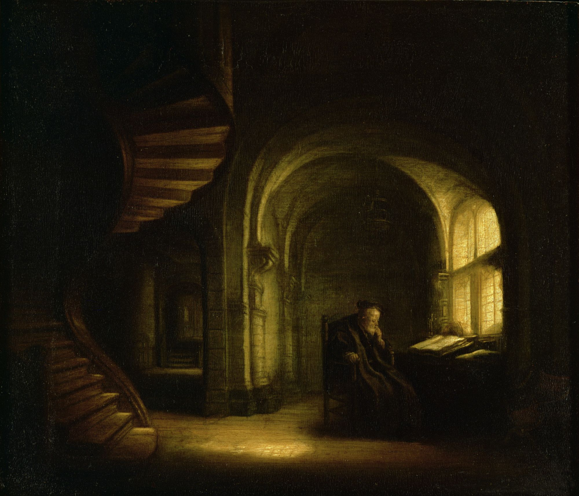 This image is available from the Netherlands Institute for Art Historyunder digital ID 216401. This tag does not indicate the copyright status of the attached work. A normal copyright tag is still required. See Commons:Licensing.